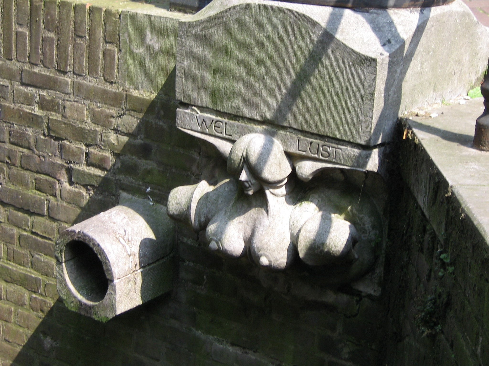 Lust, one of the seven capital sins (all of them can be encountered at the Drift)